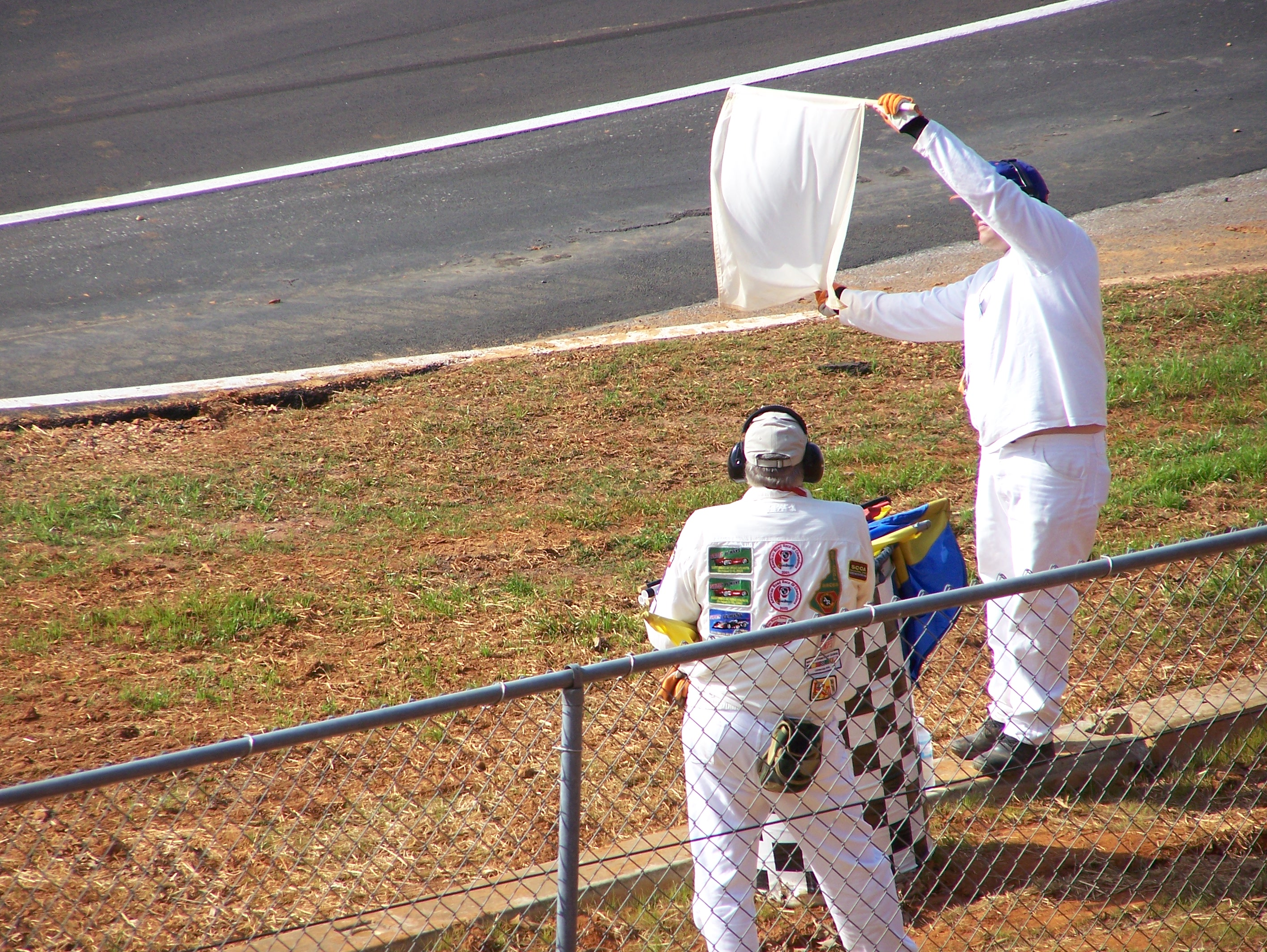 Corner workers displaying a white flag (slow car ahead) at a 2007 SCCA National meeting at Road Atlanta.